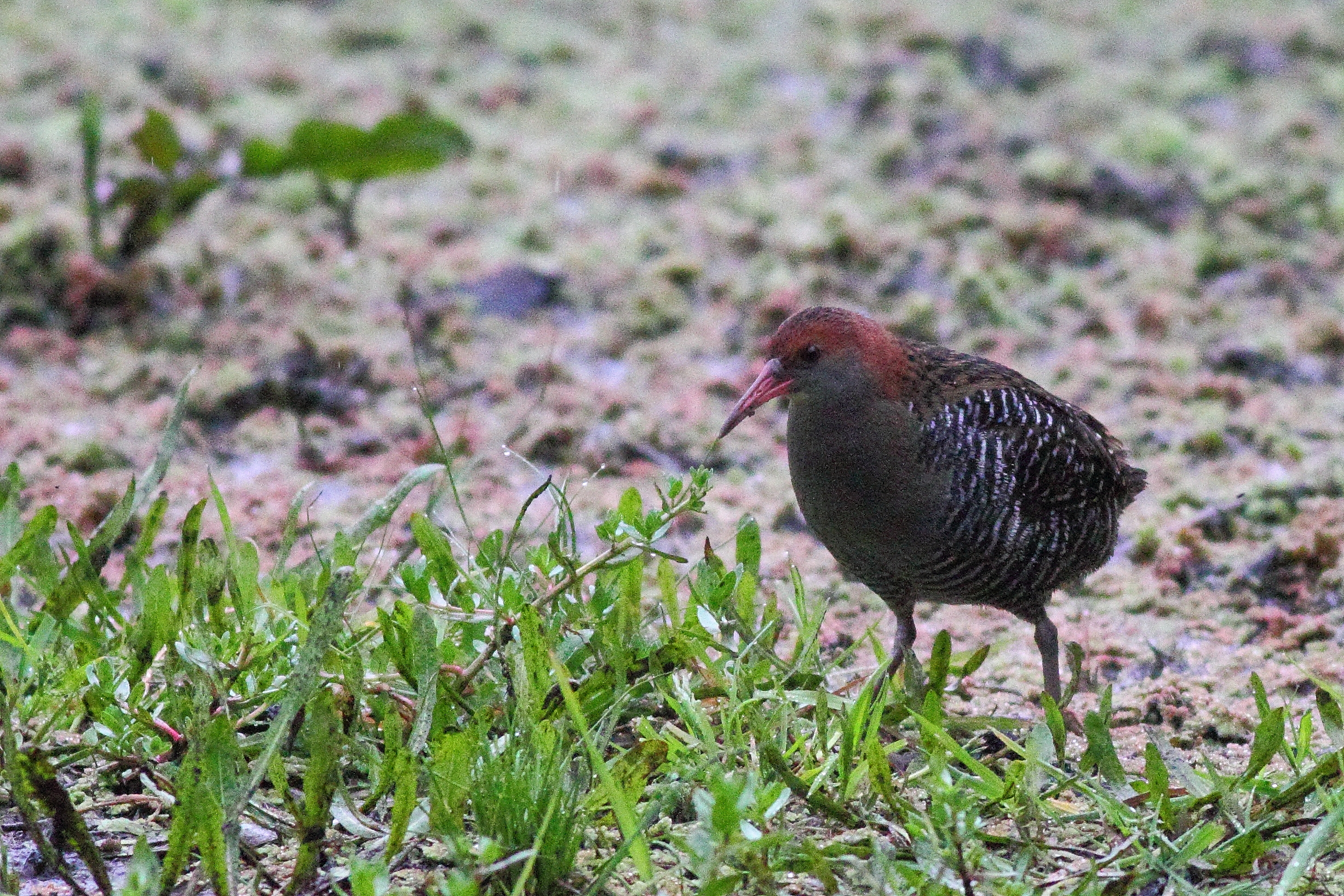 Lewin's Rail (Lewinia pectoralis)